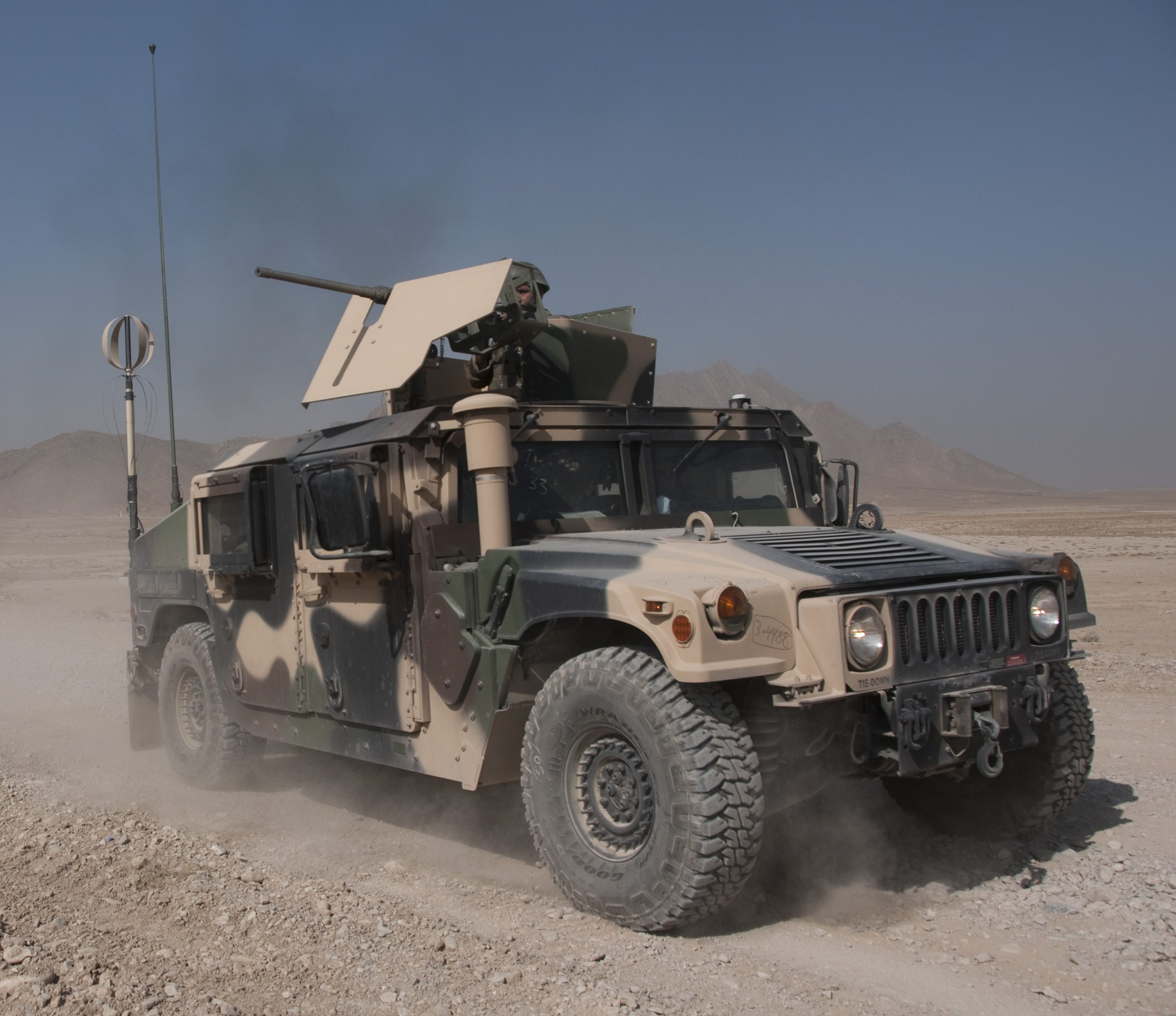 Afghan National Army doing a route clearence patrol exercise at the Kabul Militairy Training Centre (KMTC)